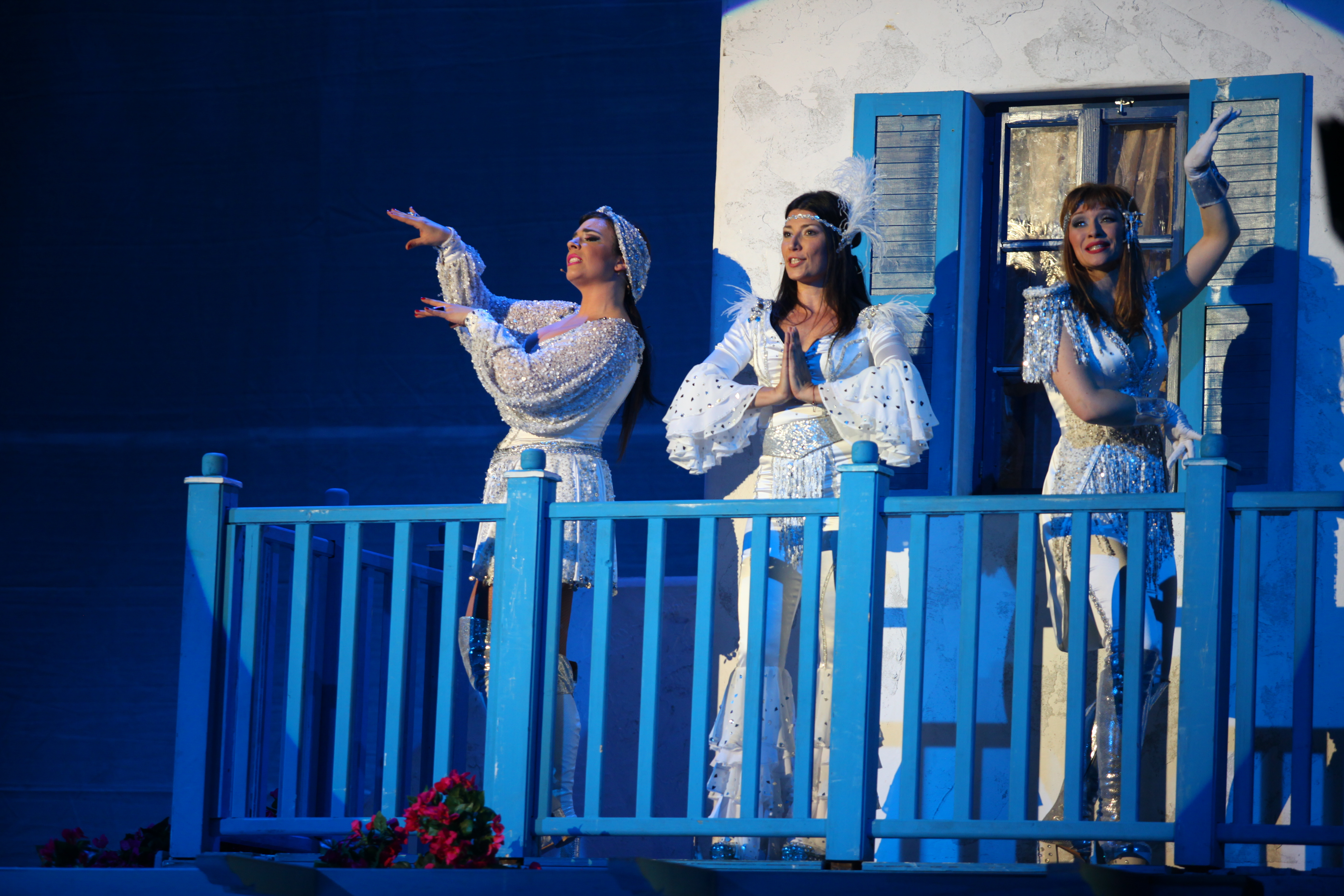 Premiere of the "Mamma mia" play